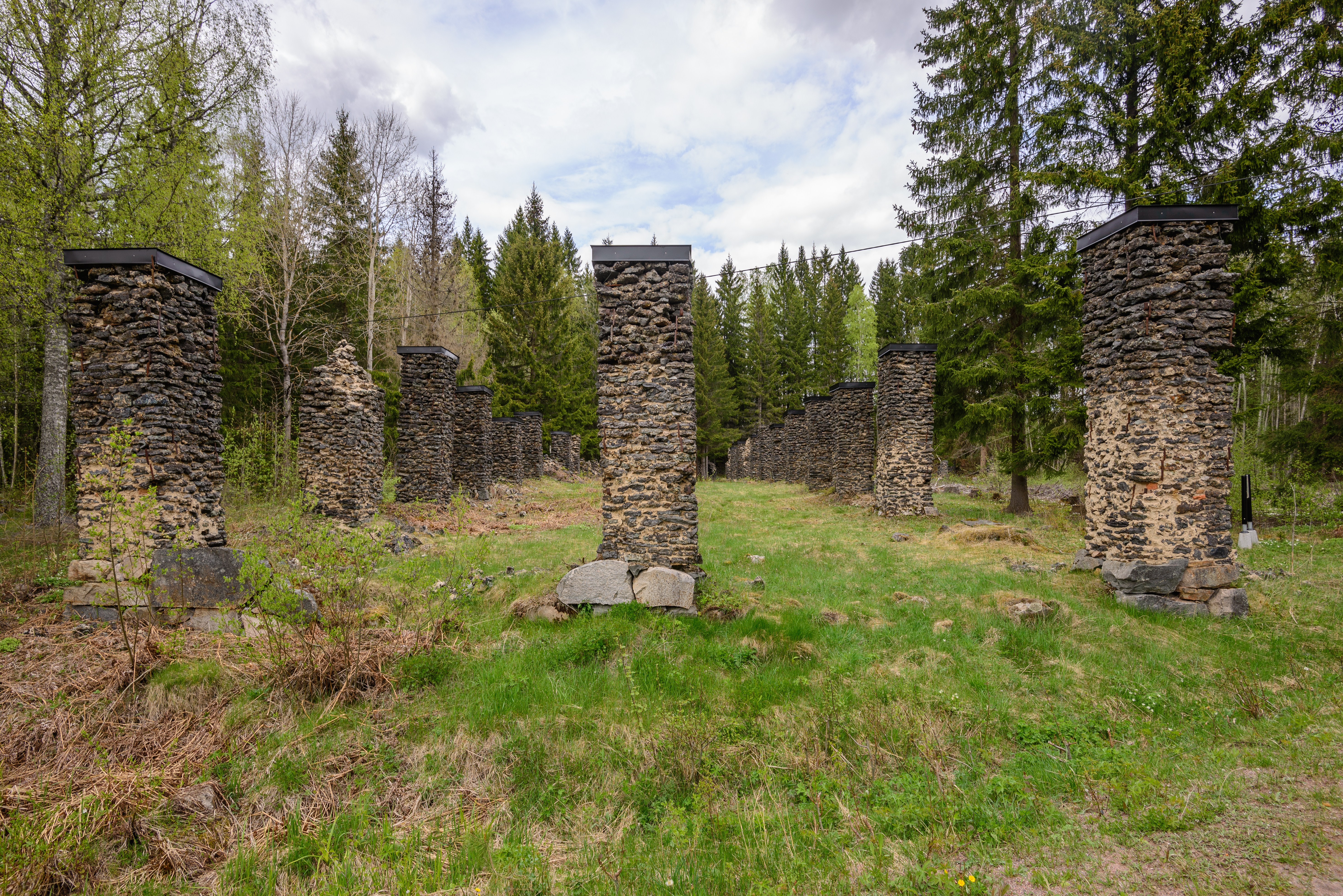 Remains of Brattfors iron works outside Garpenberg, Hedemora municipality, Sweden.